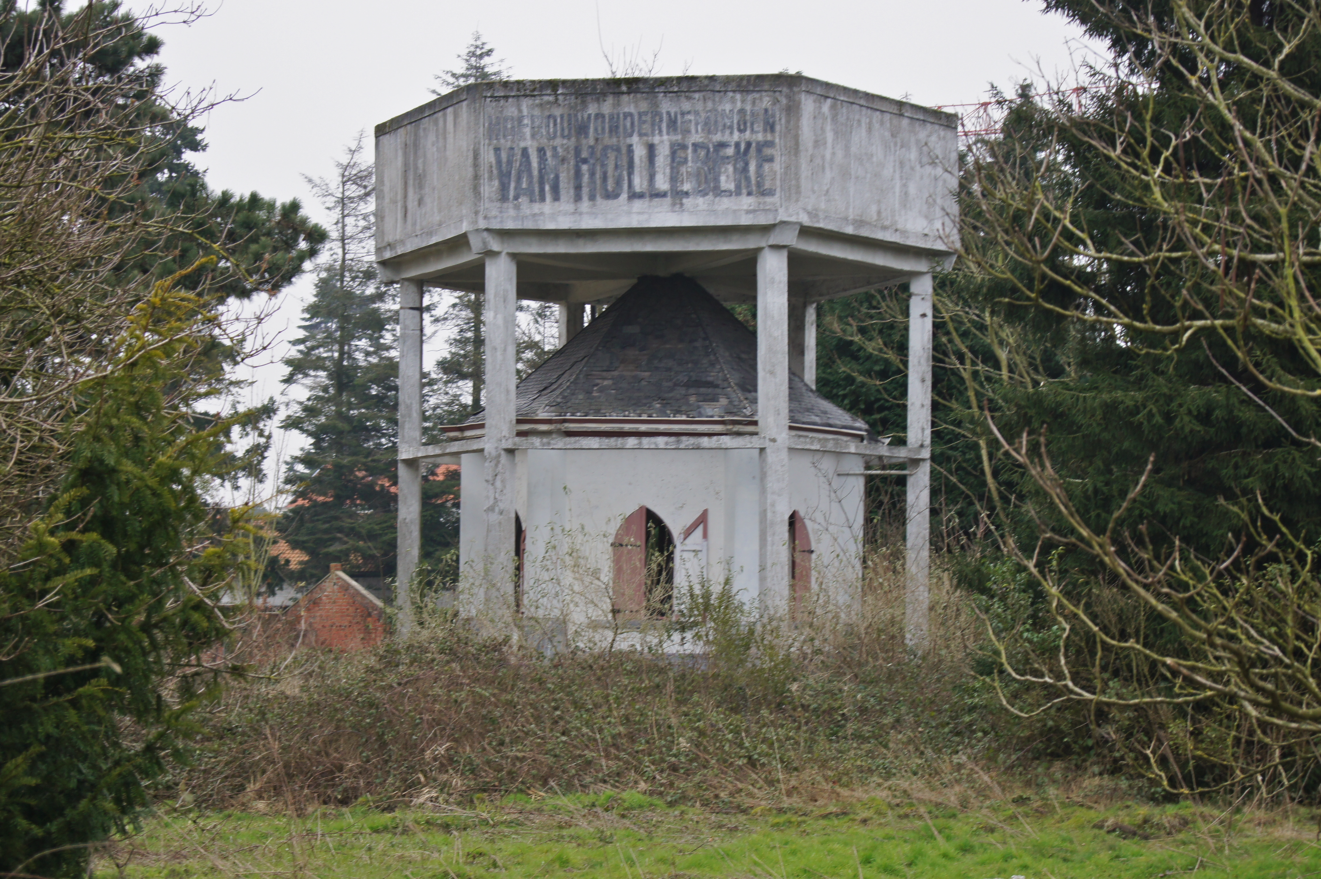 Bruges (Assebroek), Belgium: Watertower horticultural company Vanhollebeke